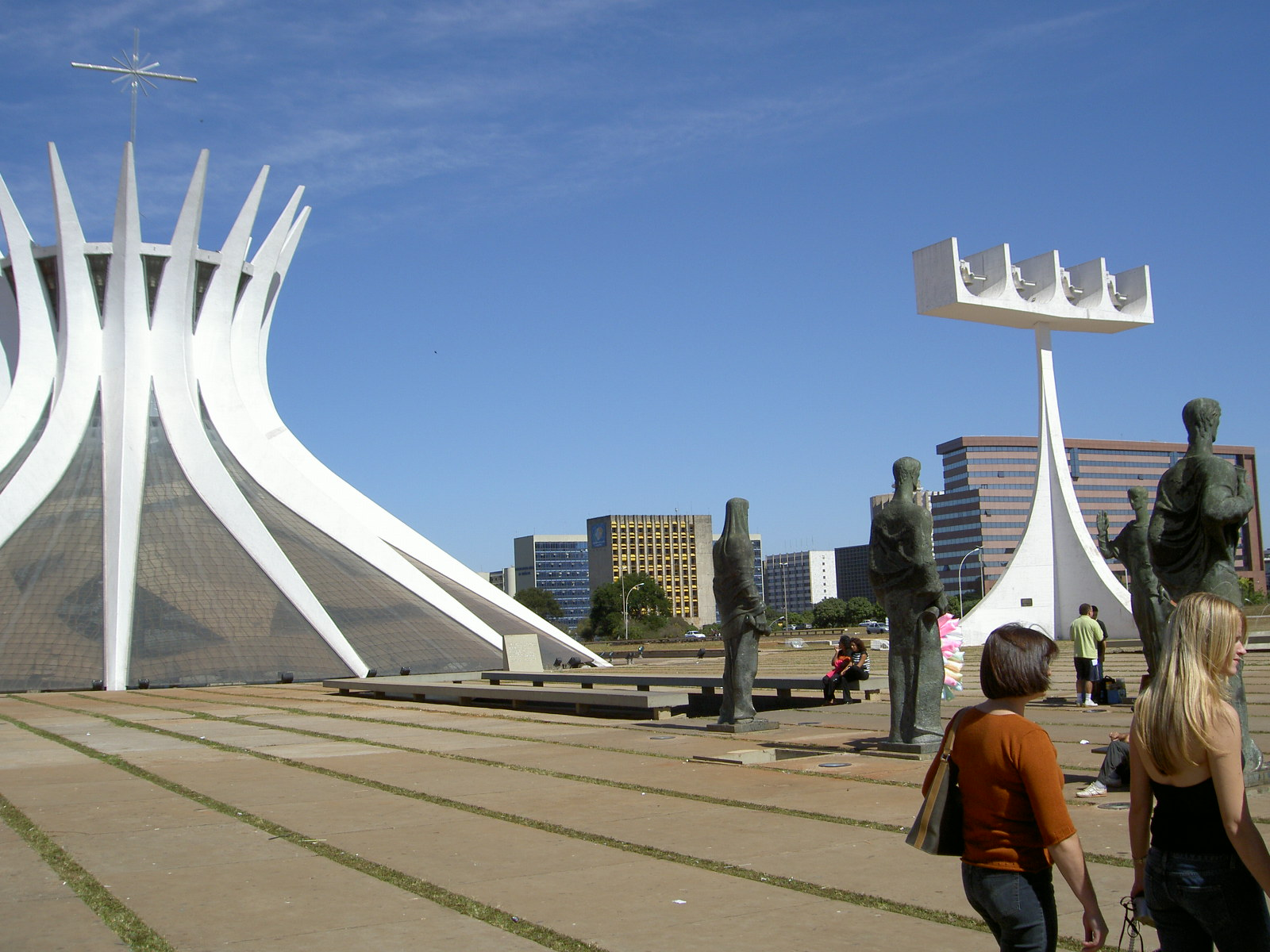 Cathedral of Brasilía